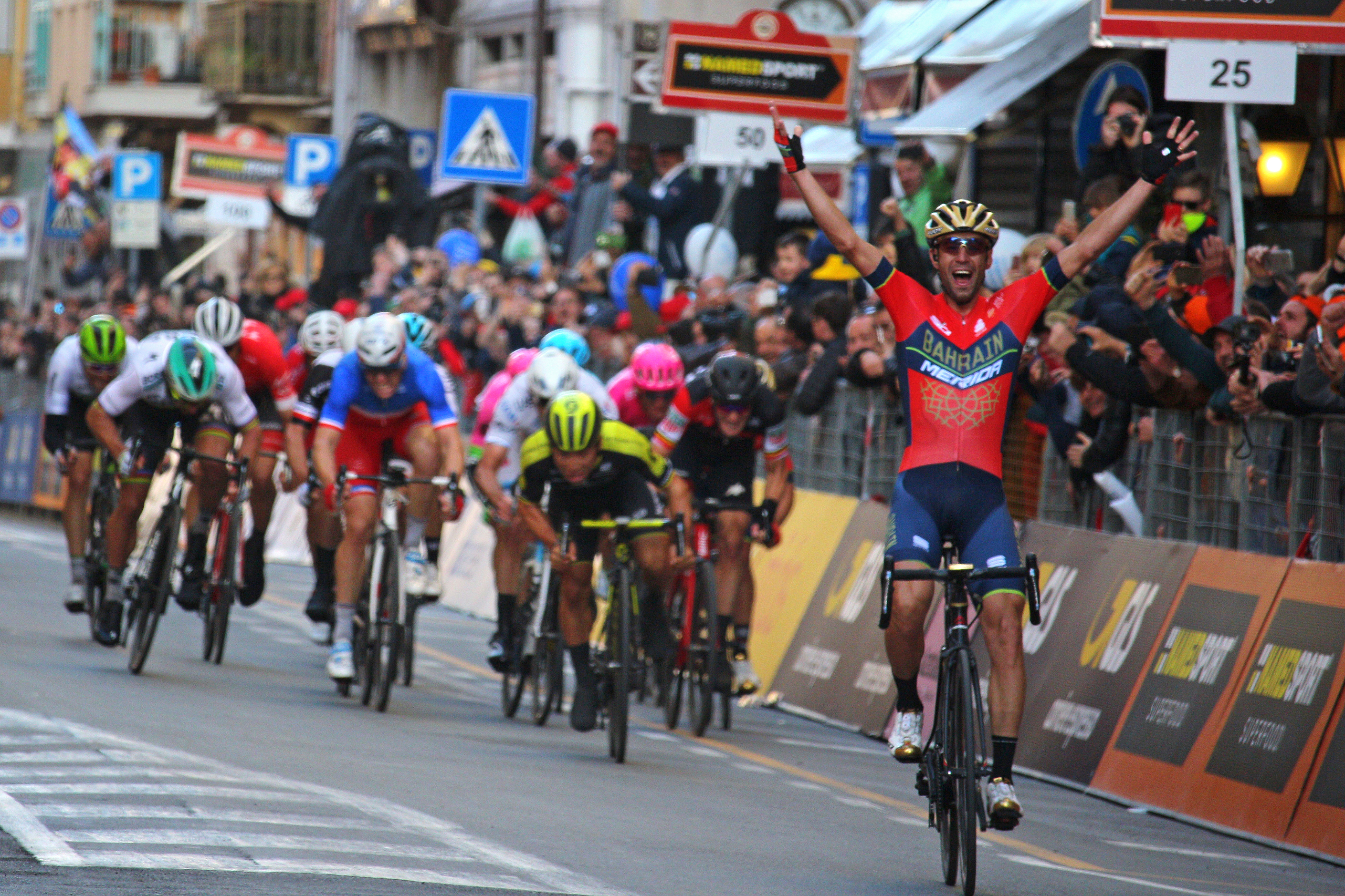 Italian cyclist Vincenzo Nibali winning the 2018 Milan-Sanremo. Caleb Ewan finished second.